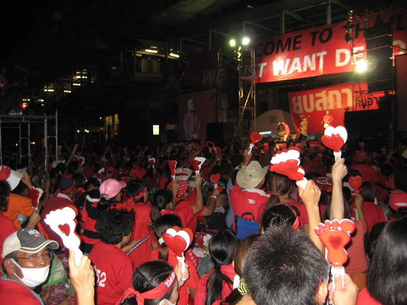 UDD protest in Bangkok on 6 April 2010